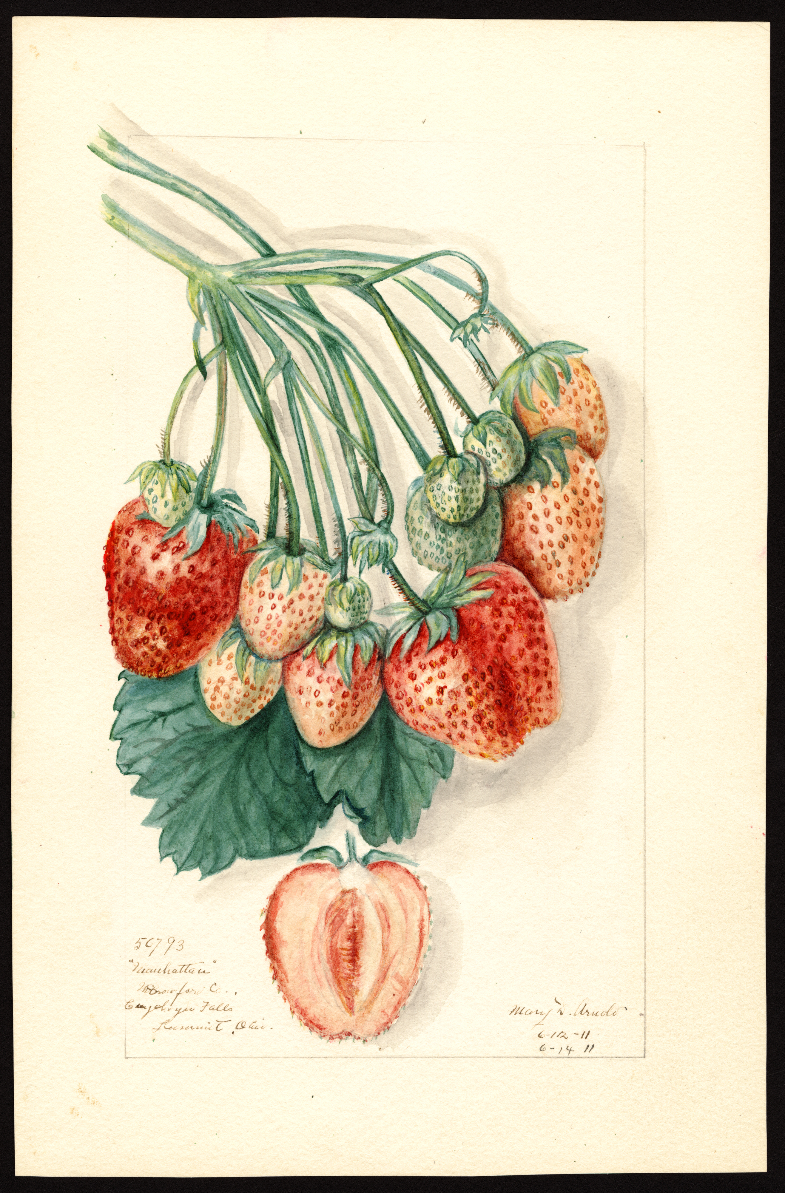 Image of the Manhattan variety of strawberries (scientific name: Fragaria), with this specimen originating in Cuyahoga Falls, Summit County, Ohio, United States. Source: U.S. Department of Agriculture Pomological Watercolor Collection. Rare and Special Collections, National Agricultural Library, Beltsville, MD 20705.